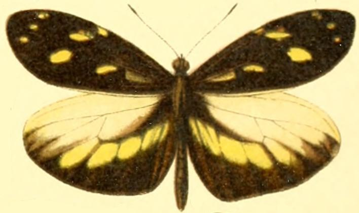 Plate from The Macrolepidoptera of the World. Vol. 5. Pieridae Dismorphiinae: Dismorphia lua